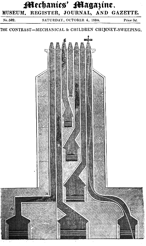 A seven-flue stack, showing how it would be cleaned by Climbing boys, or with little modification by a human cleaning machine (a brush). In the diagram: A- is a hearth served by vertical flue, a horizontal flue, and then a vertical rise having two right-angled bends that were difficult for brushes. B- is a long straight flue (14in by 9in) being climbed by a boy using back elbows and knees. C- is a short flue from a second floor hearth. The climbing boy has reached the chimney pot, which has a diametre too small for him to exit that way D (omitted) is a short flue from the third floor E shows a disaster. The climbing boy is stuck in the flue, his knees jammed against his chin. The master sweep will have to cut away the chimney to remove him. First he will try to persuade him to move: sticking pins in the feet, lighting a small fire under him. Another boy could climb up behind him and try to pull him out with a rope tied round the legs- it would be hours before he suffocated. F (omitted) G How a flue could be straighten to make it sweepable by mechanical means H A dead climbing boy, suffocated in a fall of soot that accumulated at the cant of the flue. Strange 1982, p. 7